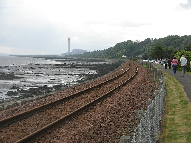 Railway line, Culross The rails are looking a little rusty, a lot of the coal for Longannet Power Station comes in via Stirling and Alloa now, leading to complaints from those living beside that newly reopened railway. Longannet Power Station in the background.